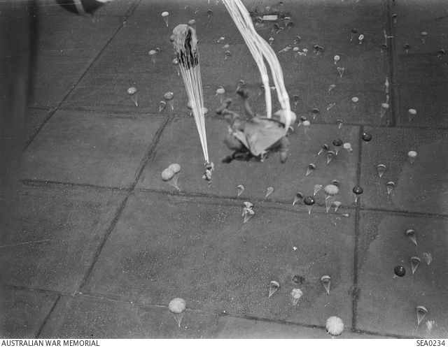 Airborne in Rangoon area, Burma. 5 January 1945. Indian paratroops jumping from Douglas C47 Dakota transport aircraft as they run up to the dropping zone south of Rangoon.